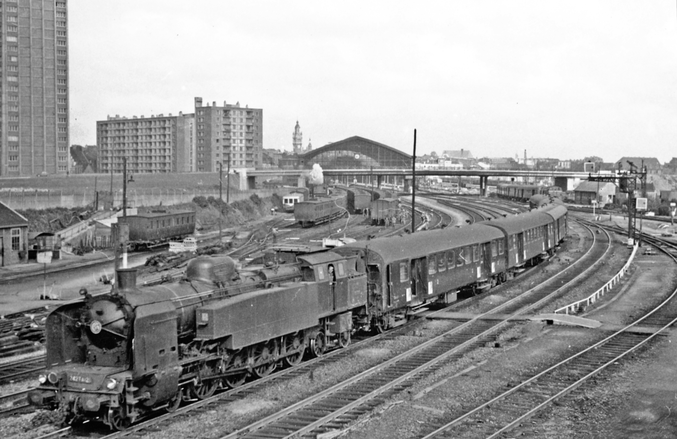 Approaches to Lille Fives (Nord) 1957, with a 242.TA class 4-8-4T propelling coaches into the station.